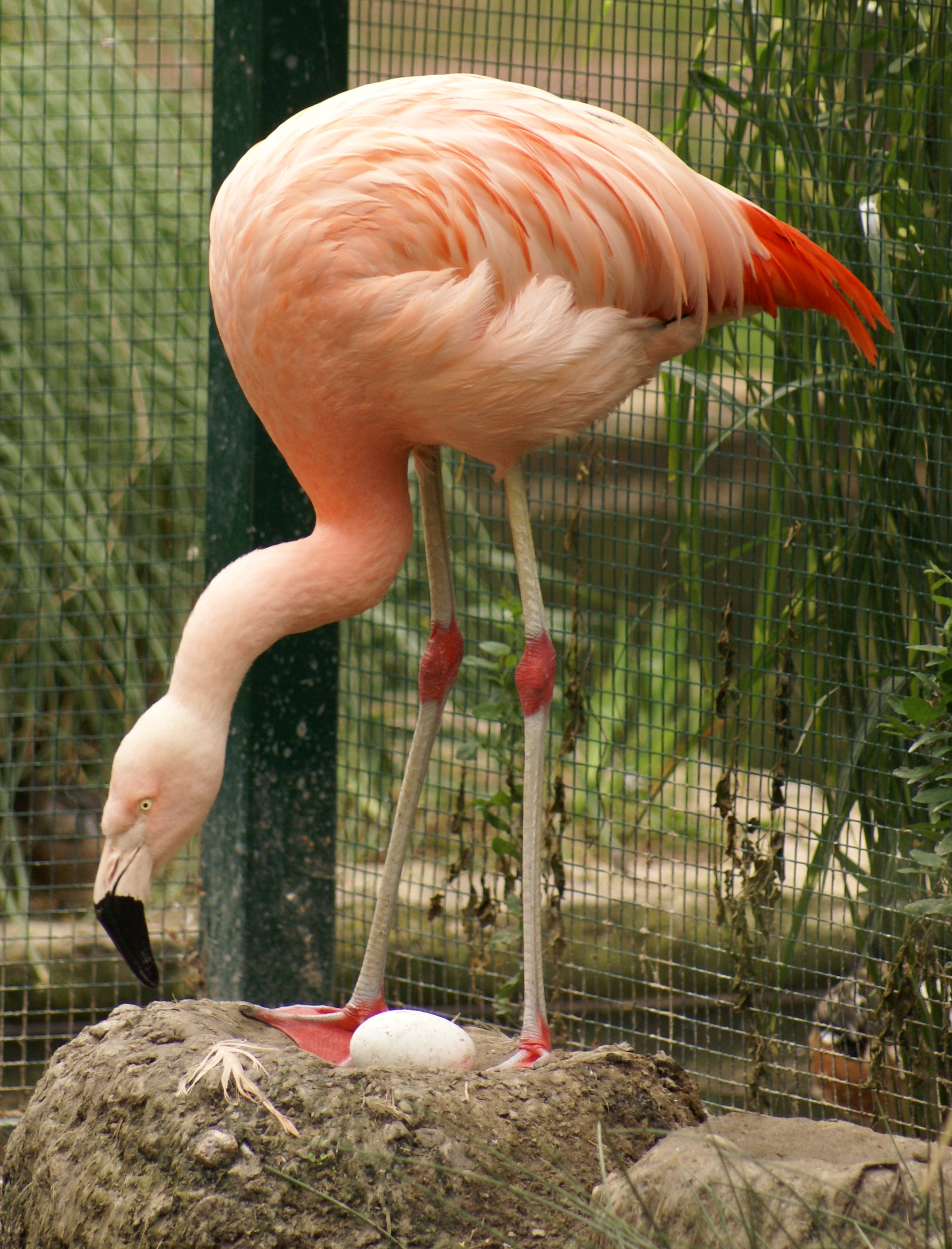 Chilean flamingo (Phoenicopterus chilensis), with egg, Tiergarten Bernburg, Germany